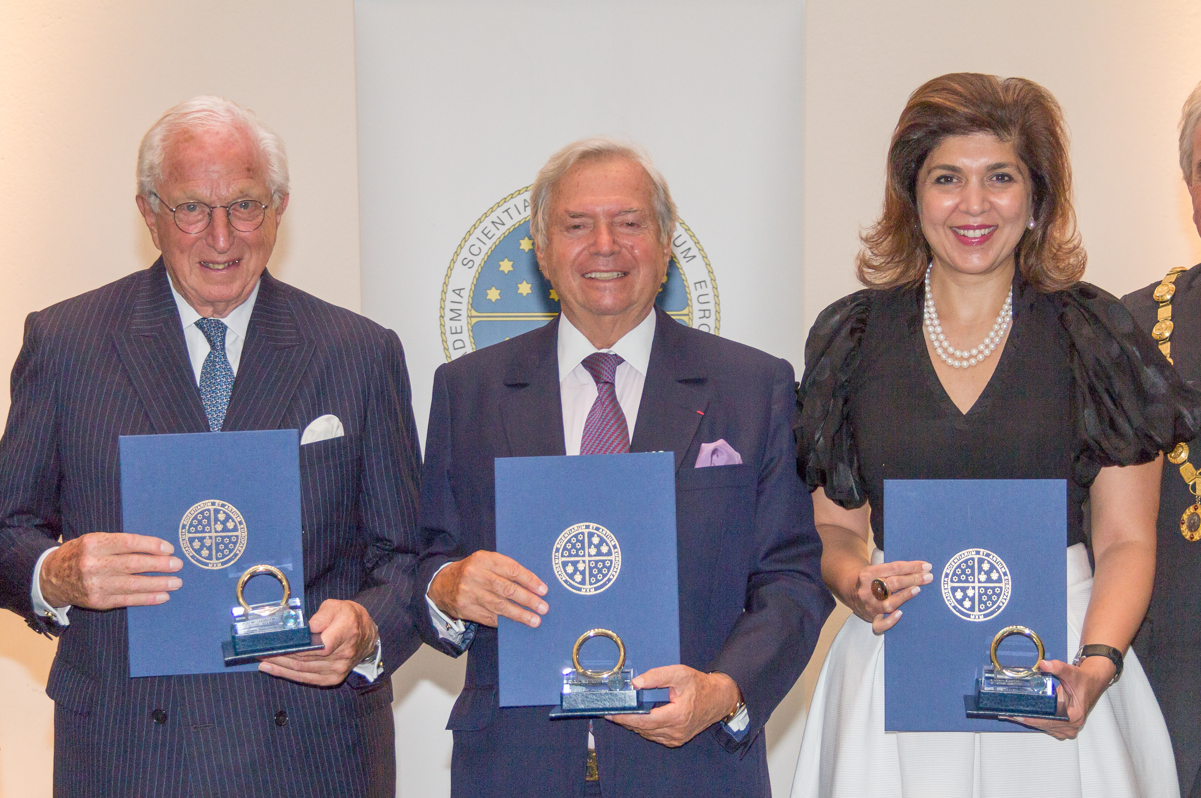 Award ceremony of the European Academy of Sciences and Arts in the city townhall of Cologne Photo: Lord Harry Woolf (Former Lord Chief Justice of England and Wales), Xavier Guerrand-Hermès (Founder and Chairman of the Guerrand-Hermès Foundation for Peace), and Farah Pandith (Adjunct Senior Fellow at the Council on Foreign Relations